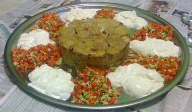 Maklube (Maqluba) - upside-down rice and eggplant casserole (Turkey)